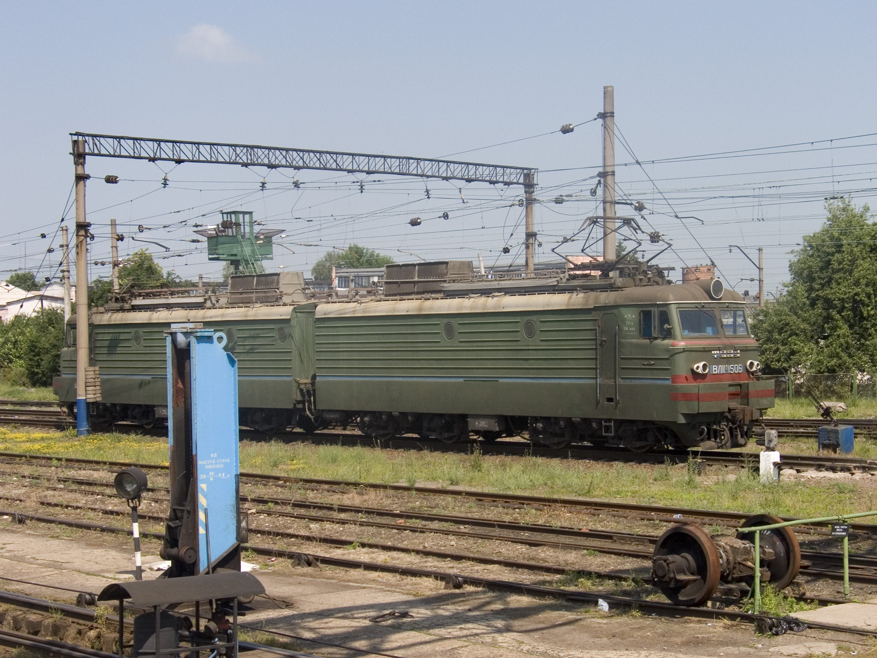 Locomotive VL11 at Chop Railway Station